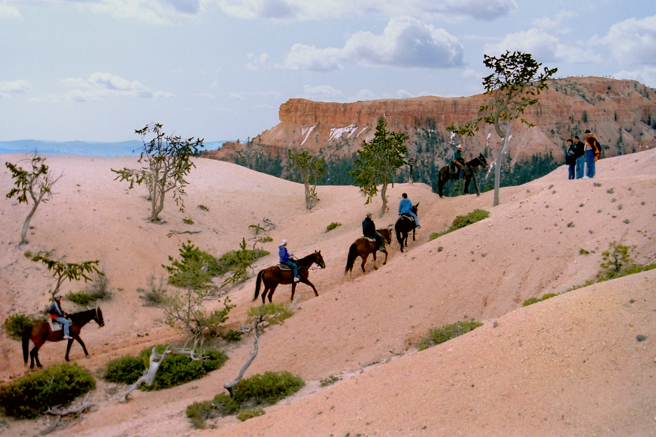 The Bryce Canyon National Park is located in southwestern Utah in the United States. Rider on the Queens Garden Trail.